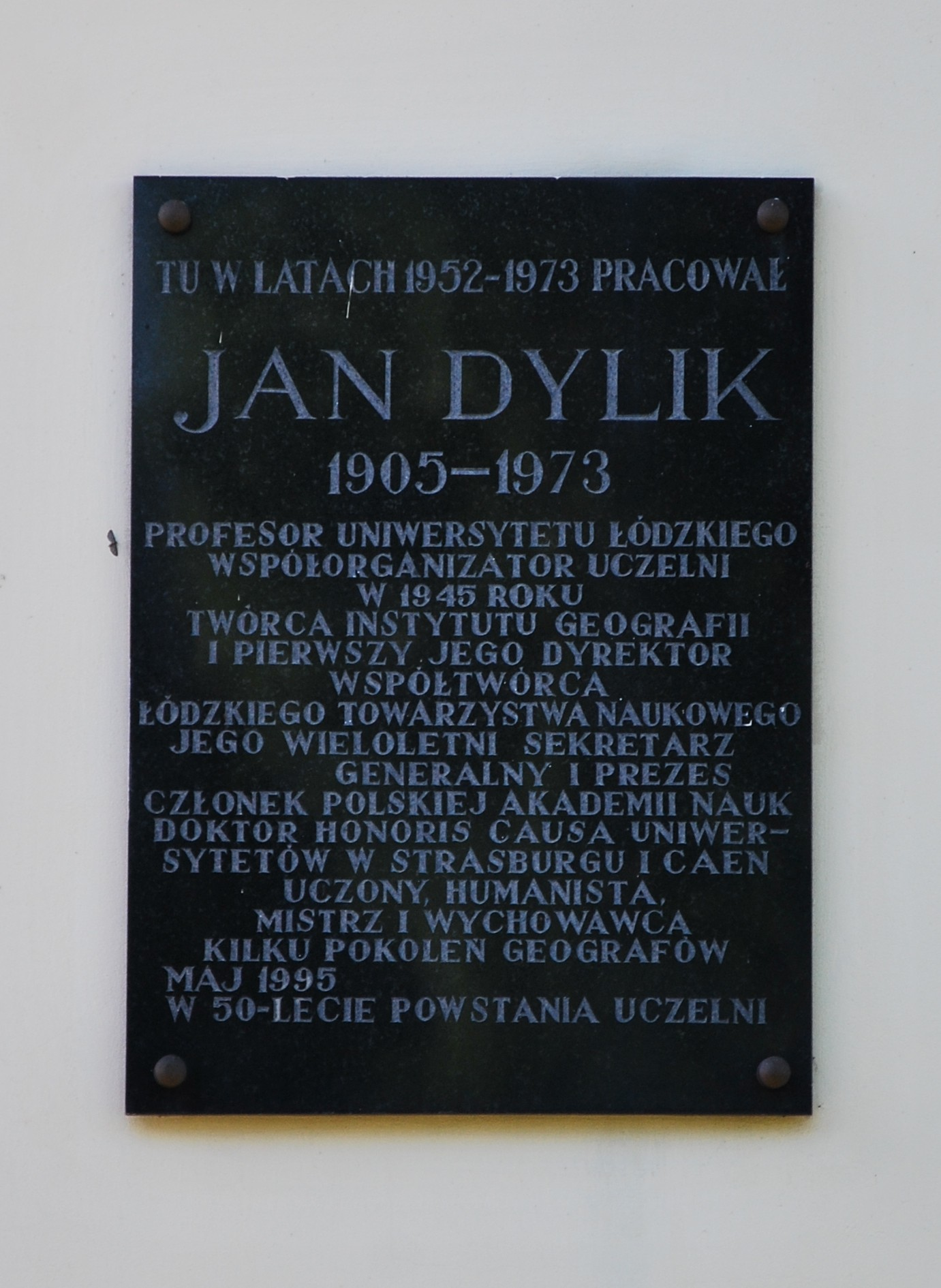 Plaque Jan Dylik, Łódź 11 Marie Curie Street